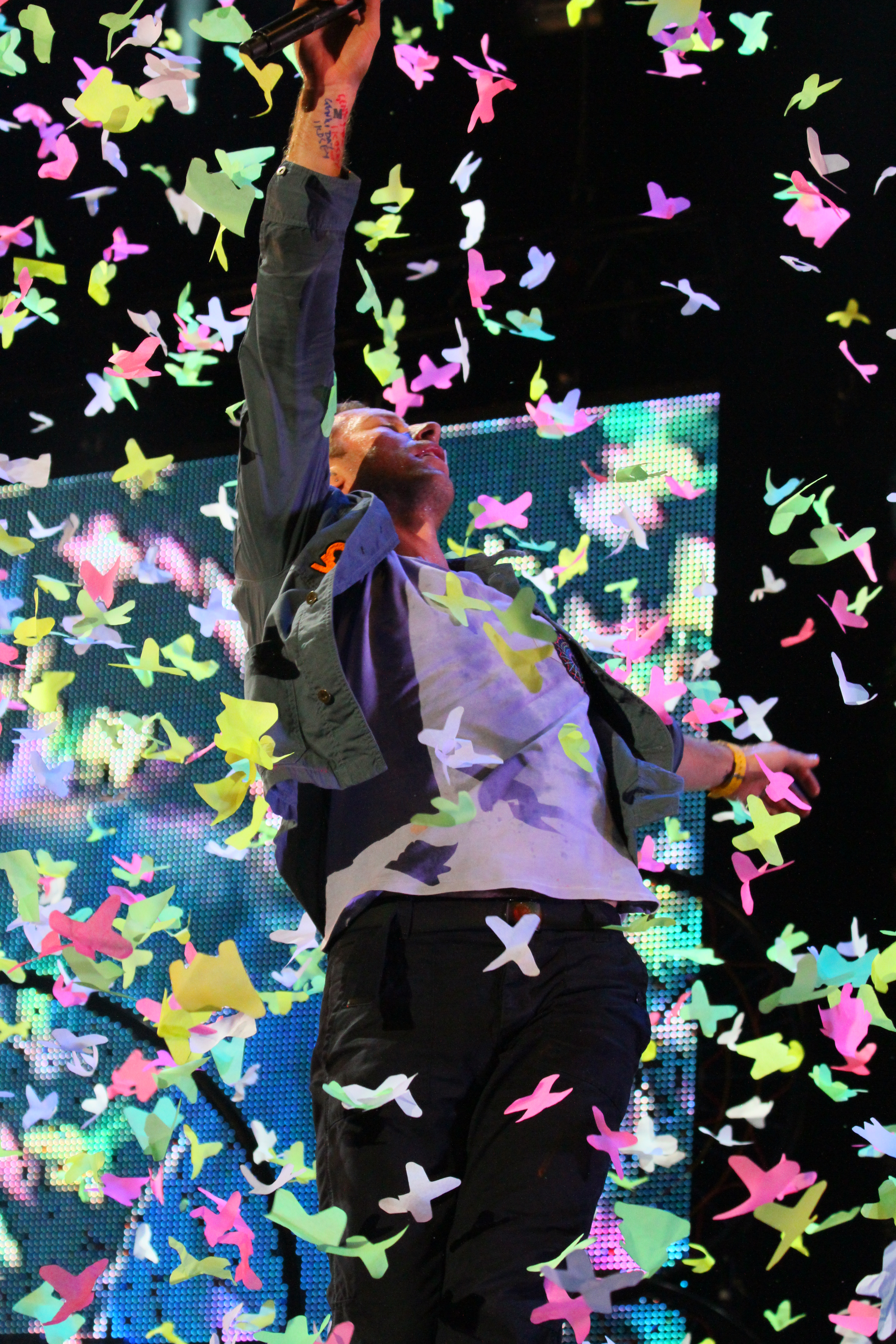 Chris Martin, performing with Coldplay, at the Naeba Ski Resort, Niigata, Japan, as part of the 2011 Fuji Rock Festival.